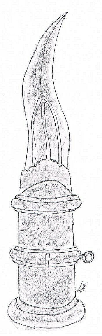 Elephant Tusk swords